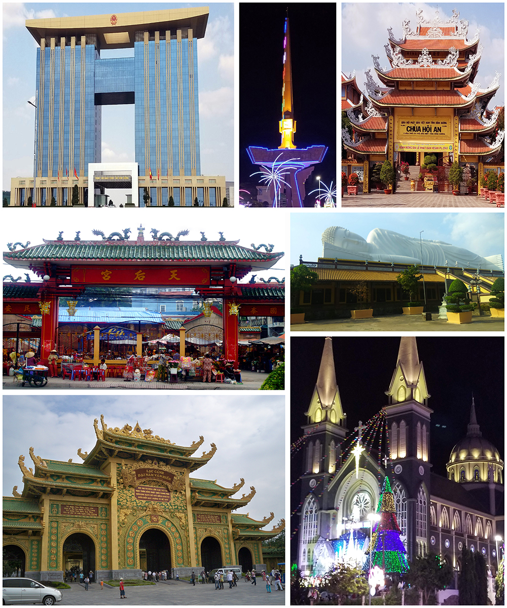 A collage of photos depicting several Binh Duong buildings and sceneries.